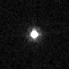 Hubble Space Telescope image of the scattered-disc object 471143 Dziewanna, taken on 13 April 2012.